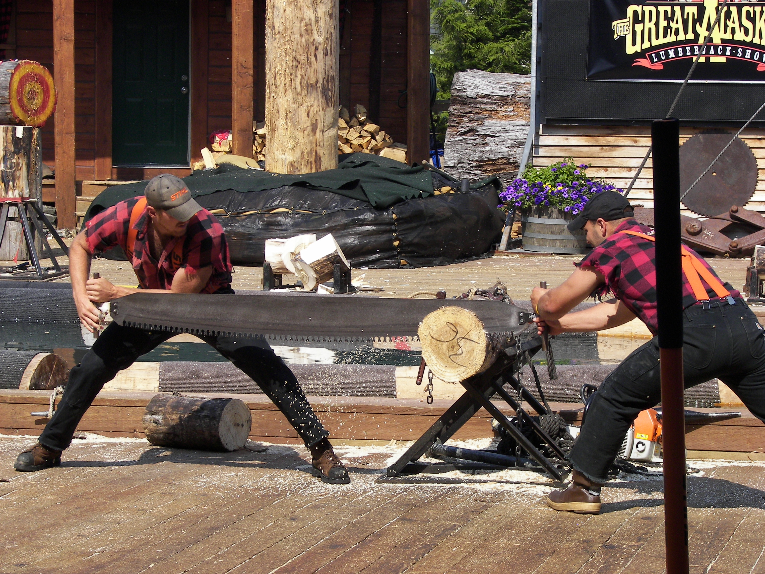 Matt Bolton and Andy Colle in the crosscut saw event at the Great Alaskan Lumberjack Show in Ketchikan, Alaska.